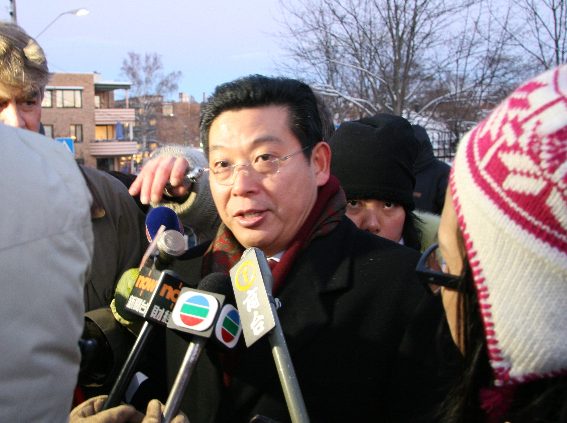 Yang Jianli